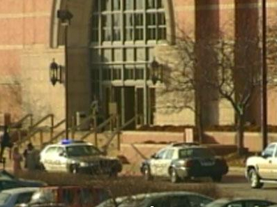 A photo I took of the scene at Von Maur after the Westroads Mall massacre that occurred on 5 Dec 2007.